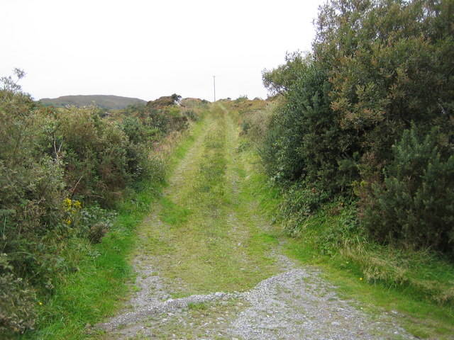 Cleanderry. A typical boreen, or dirt track or green lane, shown as a grey-coloured track on the Ordnance Survey of Ireland 1:50,000 scale maps.